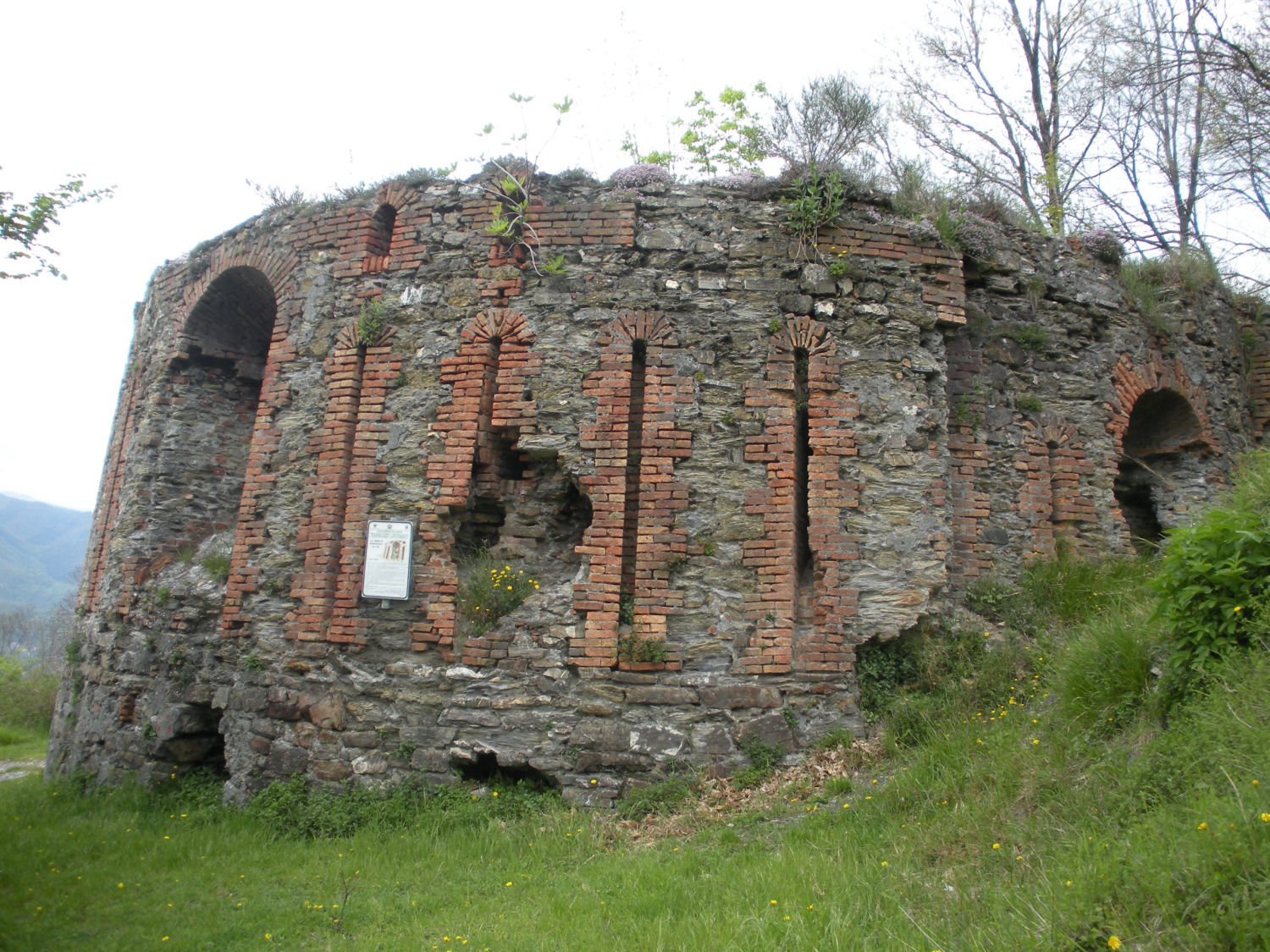 Genoa, Tower of Granarolo